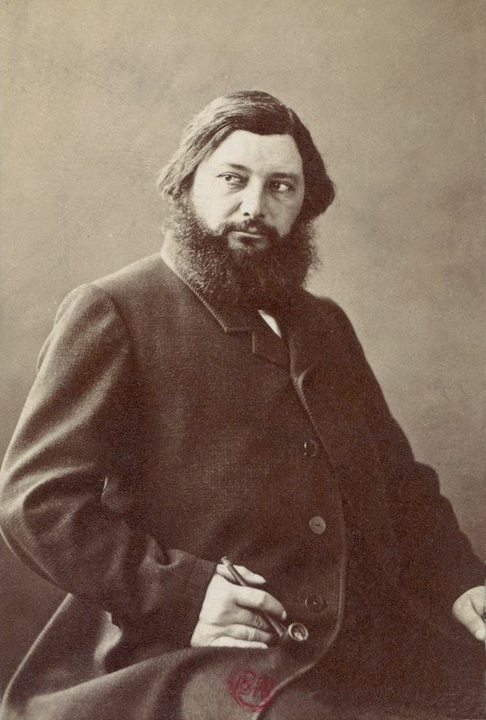 Gustave Courbet (peintre), proof from the Atelier Nadar (Paris).